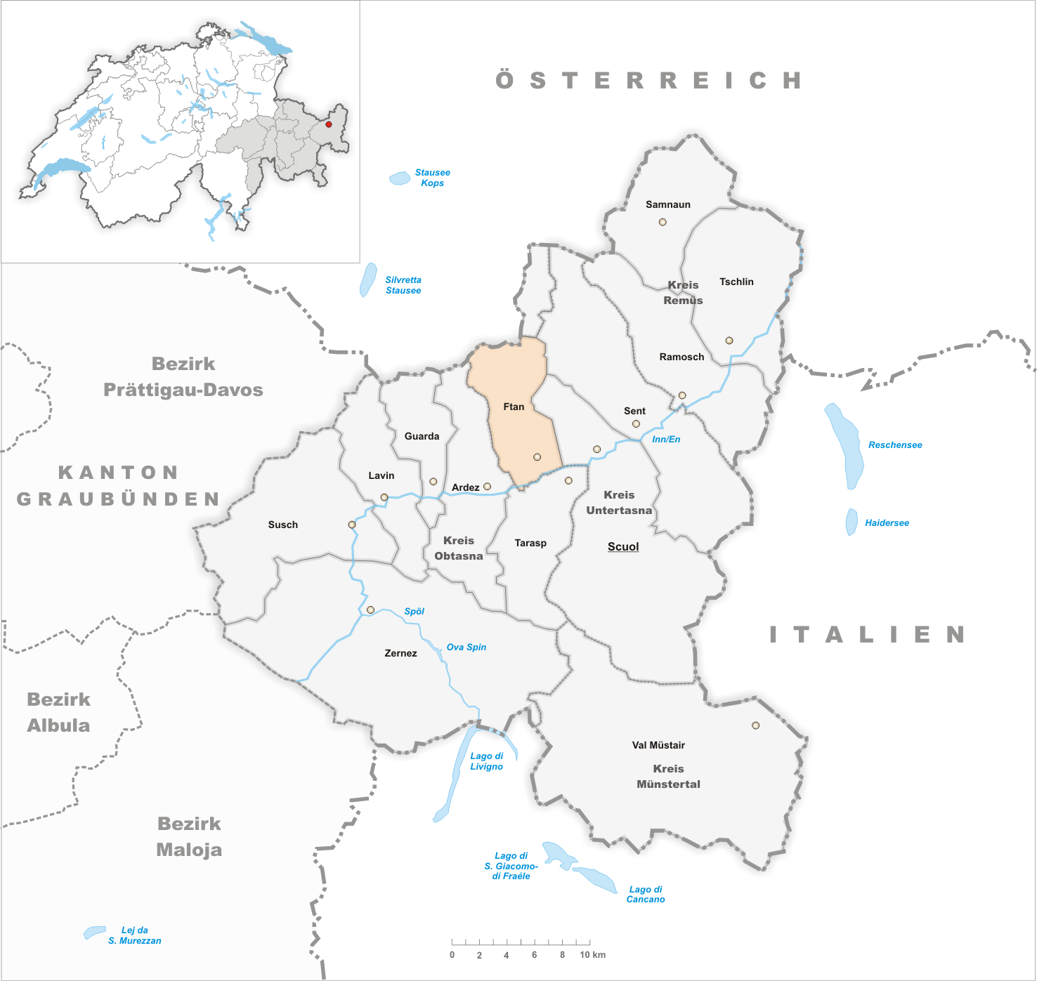 Municipality Ftan